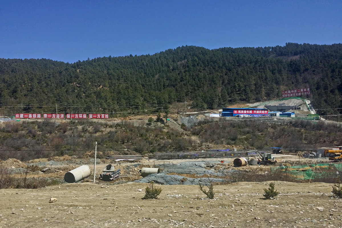 Construction site of Nuosong Tunnel, Lijiang-Shangri-La Railway